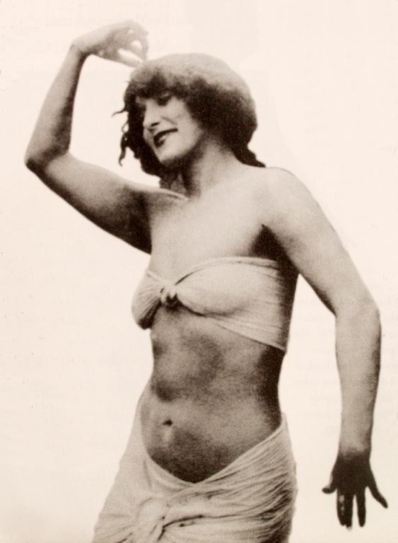 Actress & swimmer Annette Kellerman. Believed to be from her 1916 film "A Daugter of the Gods"